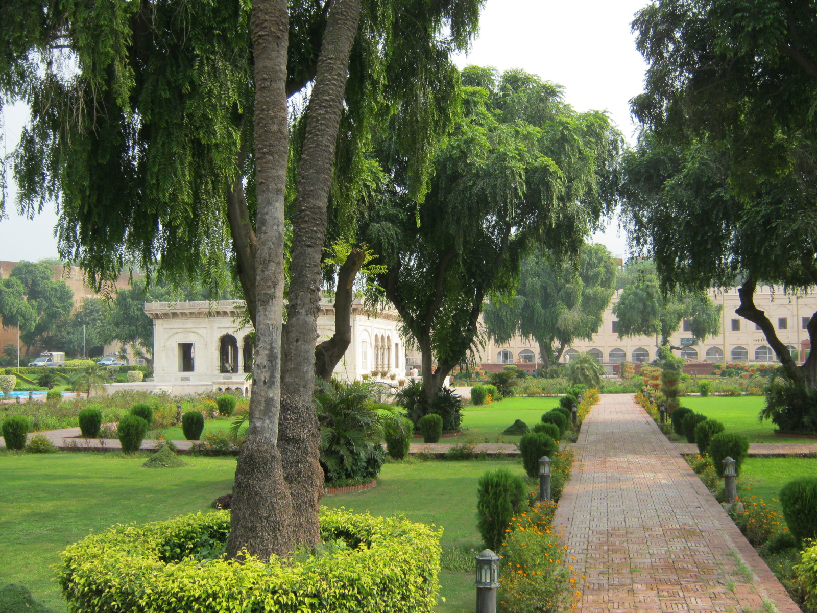 Hazuri Bagh This is a photo of a monument in Pakistan identified as the PB-60